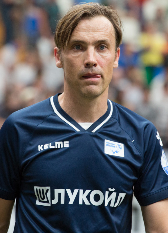 Croatian former footballer Dario Šimić on 12 July 2018, during the Legends SuperCup in Moscow.